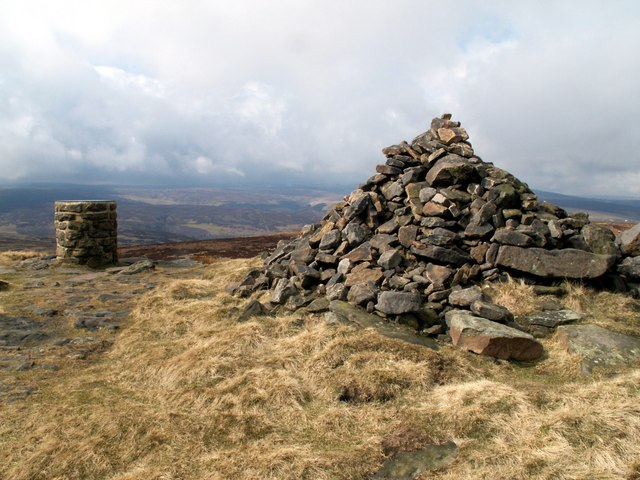 Lost Lad Cairn Looking towards Bleaklow Plateau.